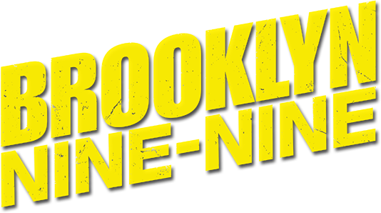 Logo of the American television sitcom Brooklyn Nine-Nine